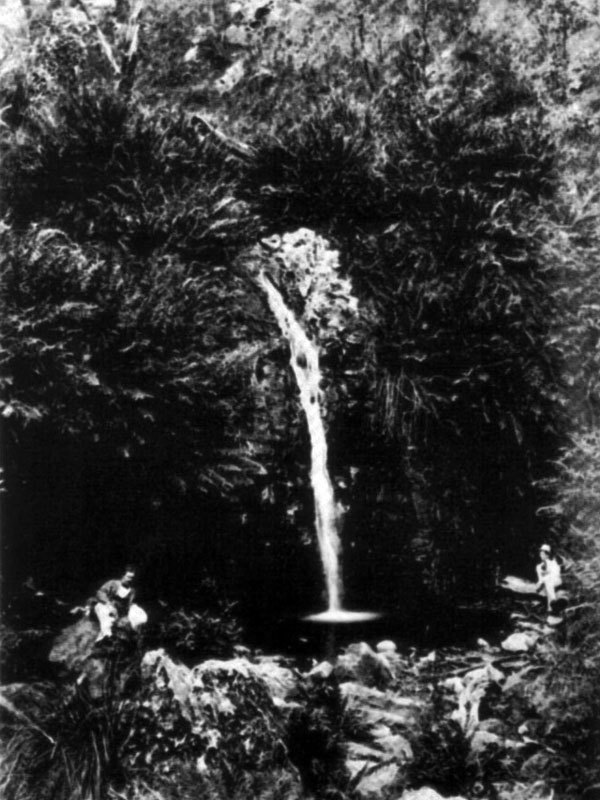 A view of Second Falls, Waterfall Gully in South Australia, taken in 1880. At the time the falls were covered with ferns, but this changed no long after this photo was taken due, in part, to the actions of visitors.